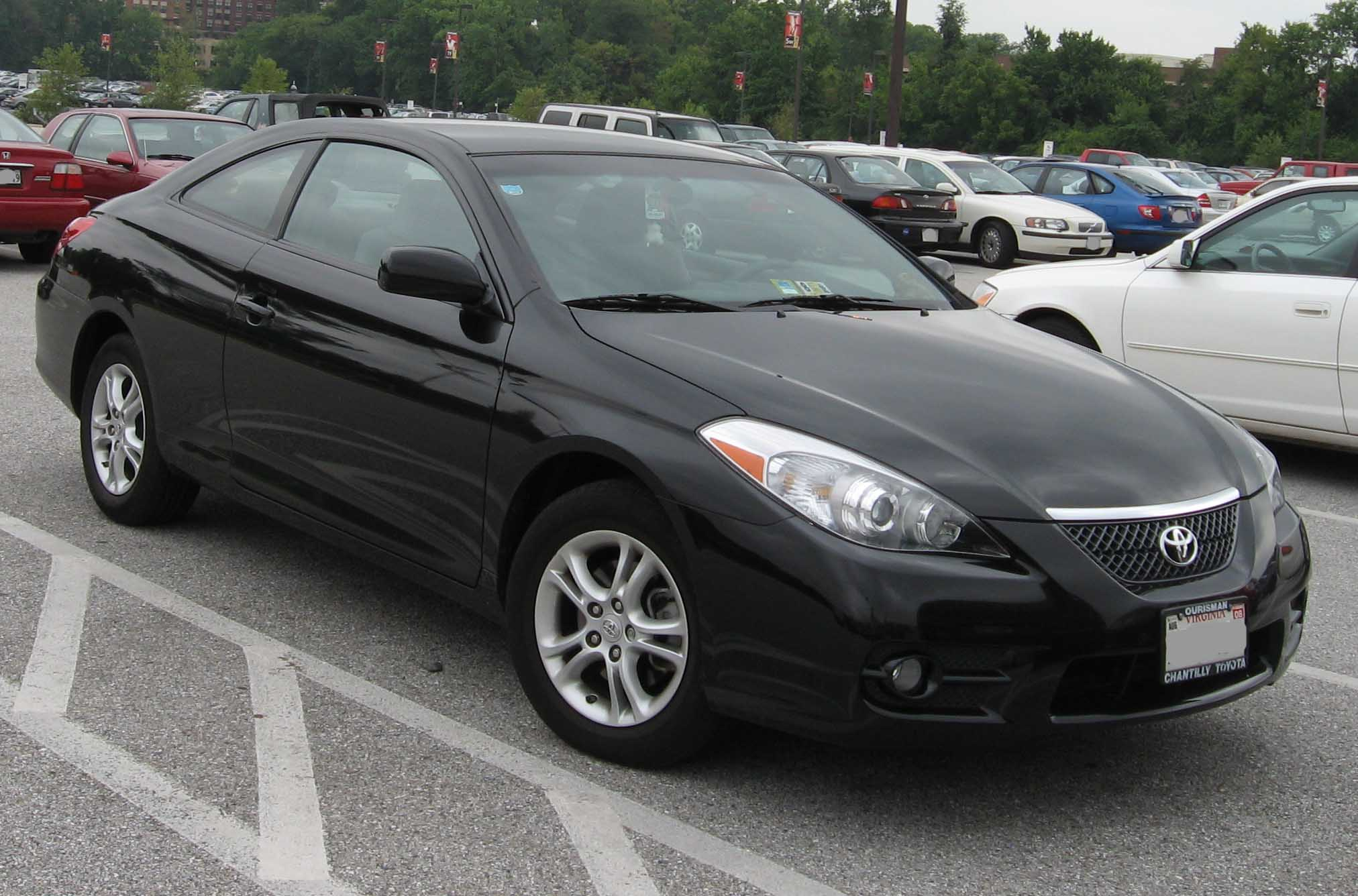 2007 Toyota Solara photographed in USA.